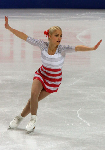 Kiira Korpi at the 2009 European Championships.